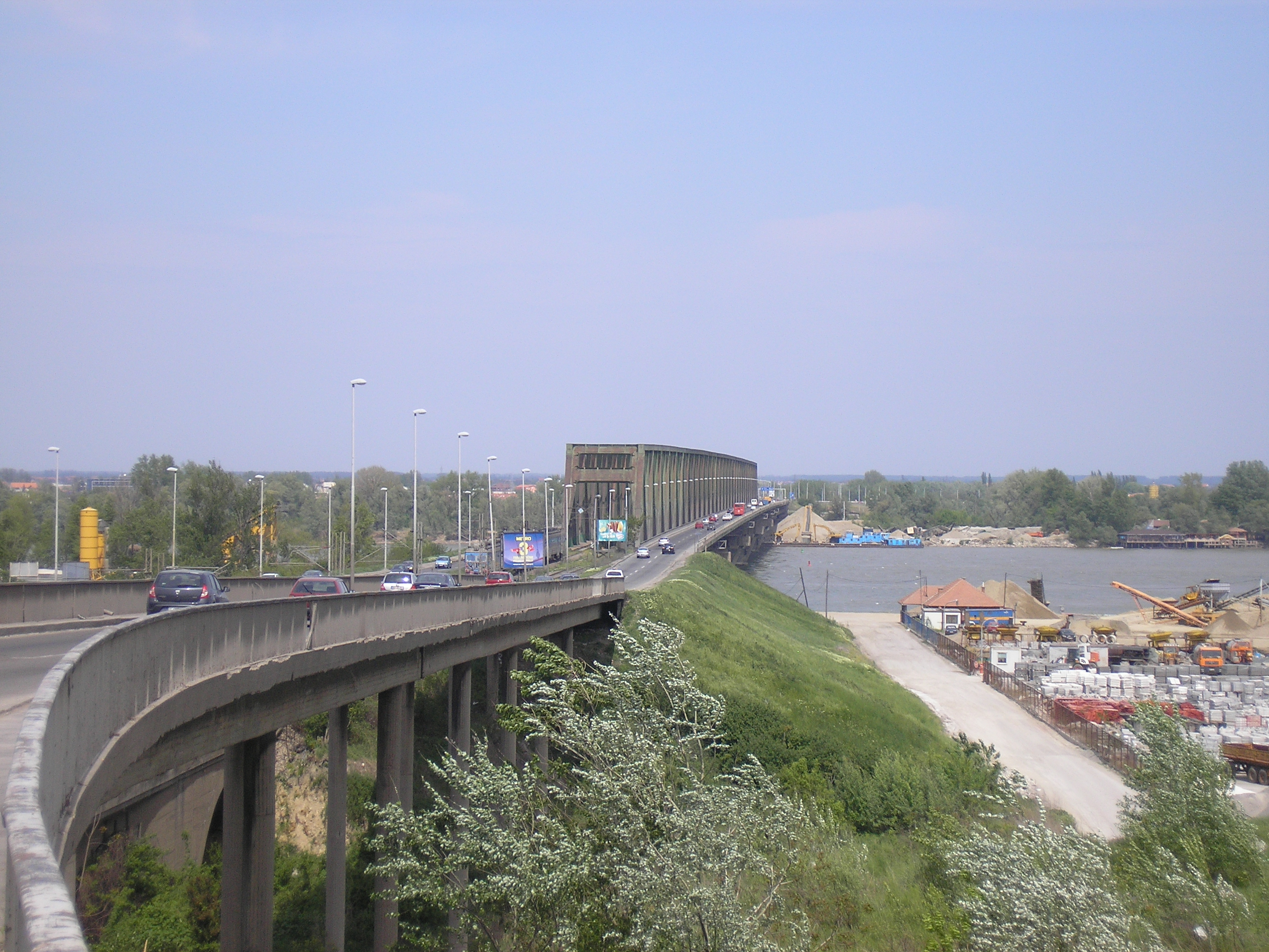 Approach to Pančevo Bridge. Serbia, Belgrade.